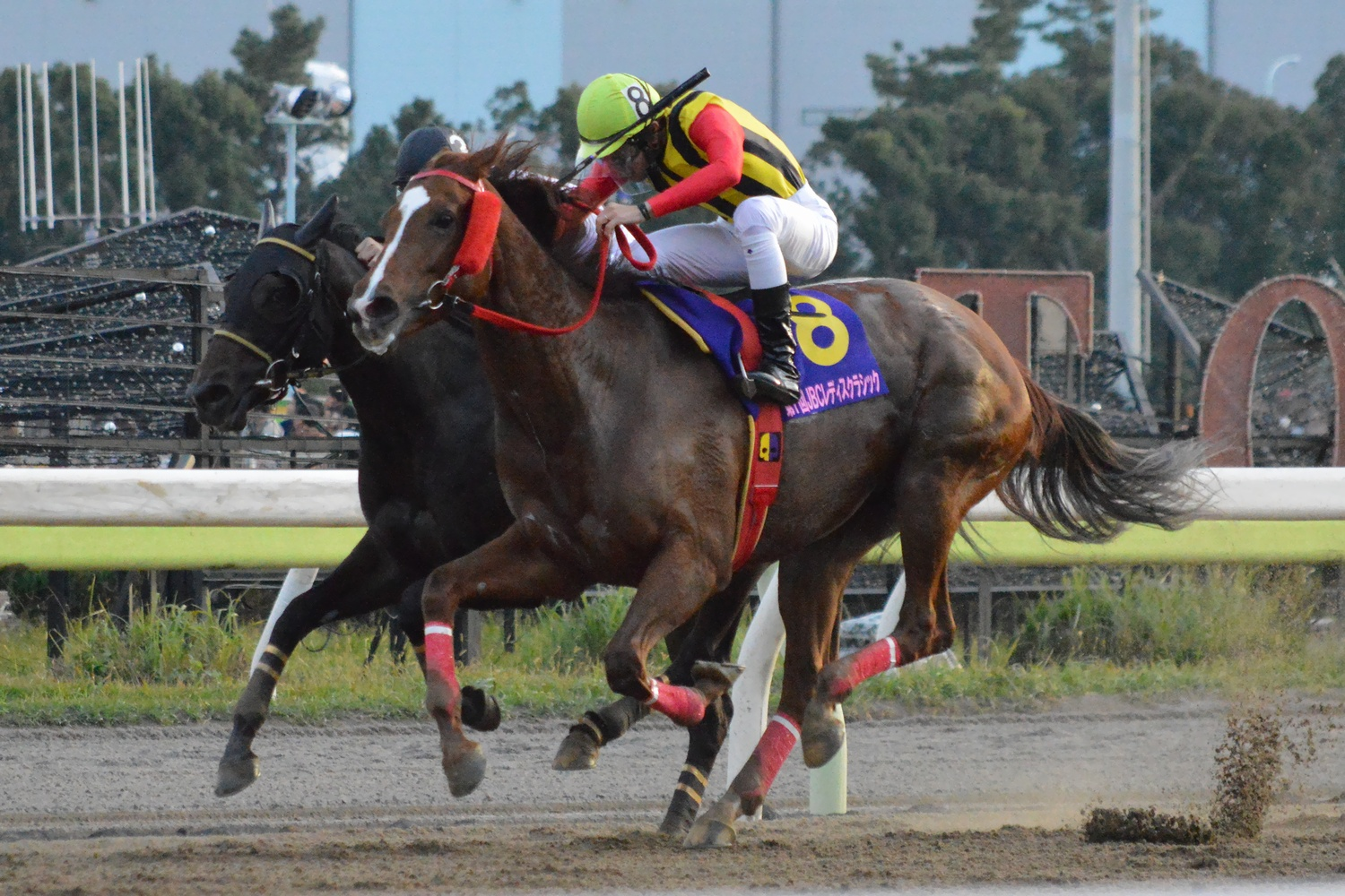 Japanese race horse Lalabel at Oi racecourse.